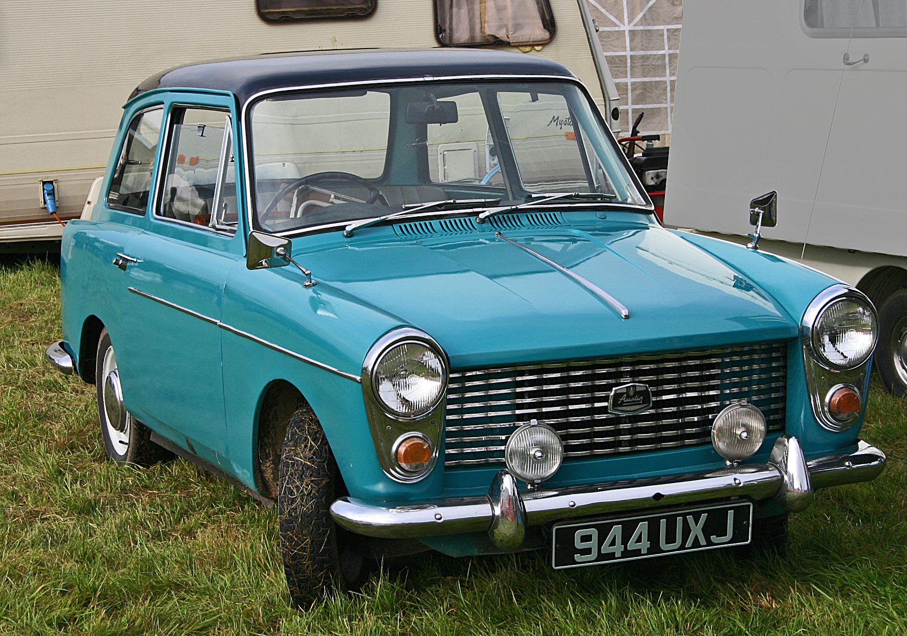 Pinin Farina's original Austin A40 MkI